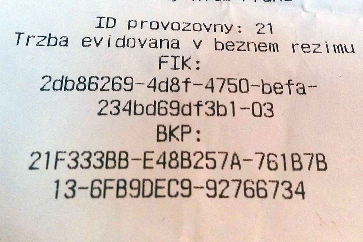 Fiscal Identification Code (FIK) with other information required by the electronic registration of sales in the Czech Republic on a receipt